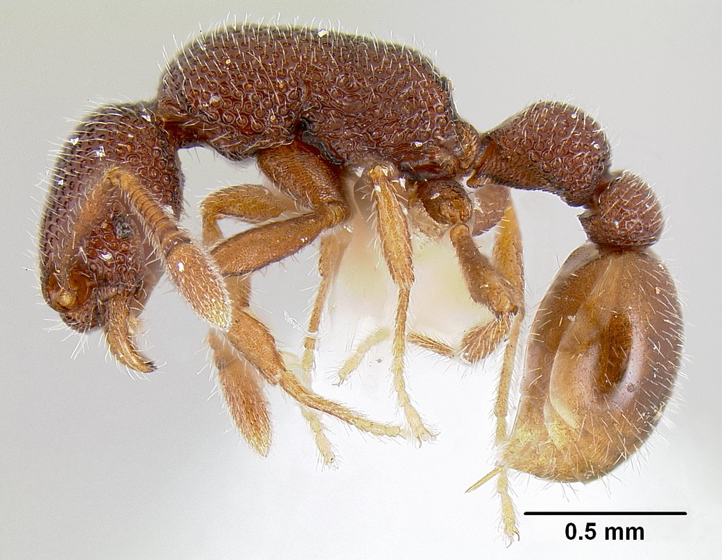 Profile view of the Tyrannomyrmex legatus holotype worker. Collected on 25 Mar 2006 in Sinharaja Forest Reserve, South western Sri Lanka Museum of Comparative Zoology, Harvard University, Cambridge, Massachusetts, USA MCZ specimen 35624 Antcat specimen ANTC4038